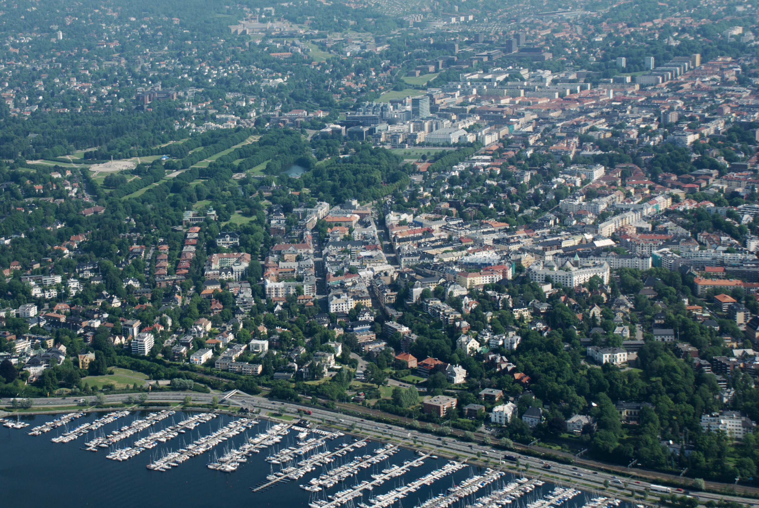 Aerial view of Frogner — Oslo).